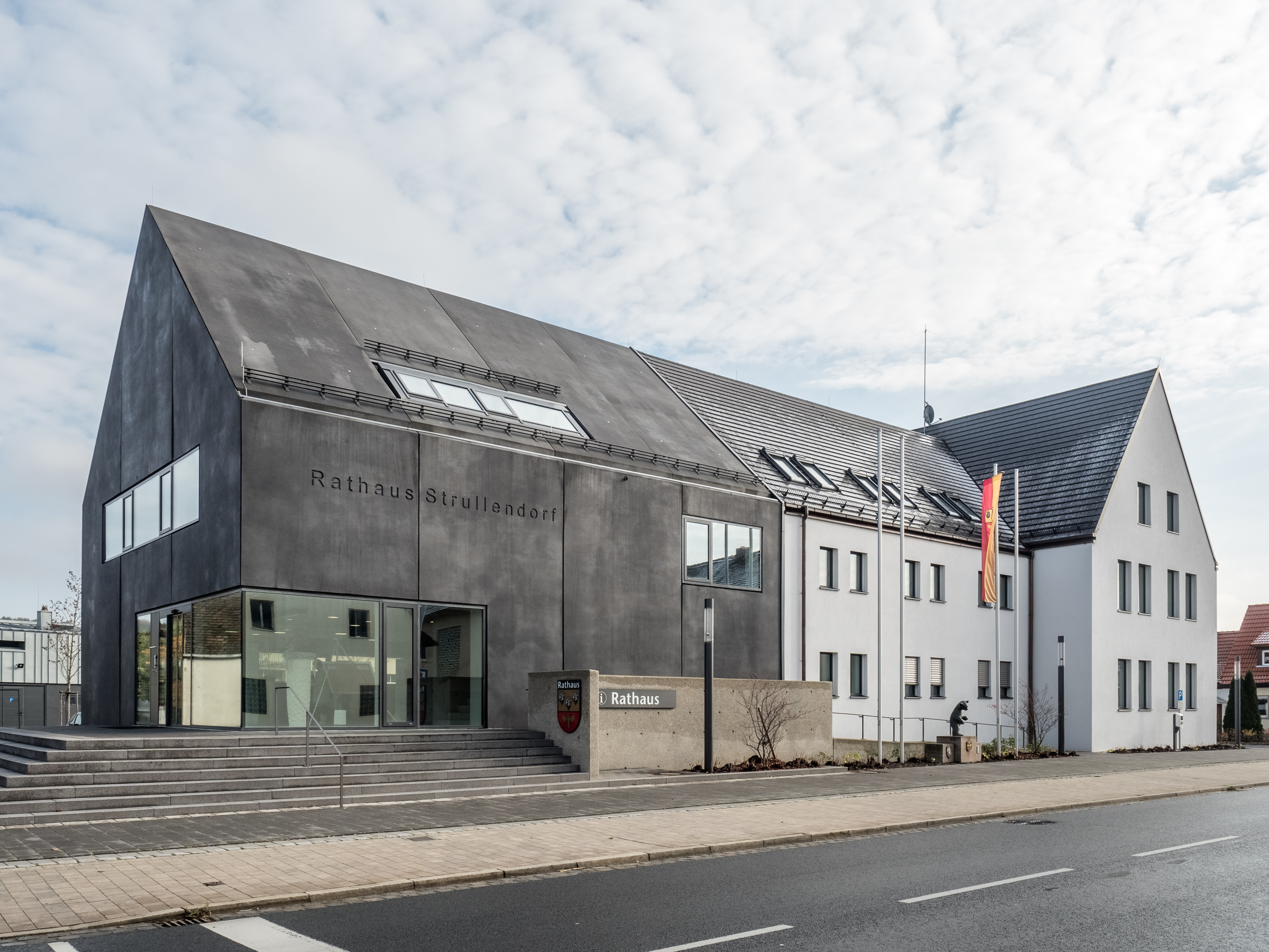 Town hall in Strullendorf near Bamberg